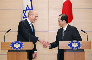 Ehud Olmert, Prime Minister, met Yasuo Fukuda, Prime Minister, at the Prime Minister's Official Residence in Chiyoda Ward, Tōkyō Metropolis on February 27, 2008.